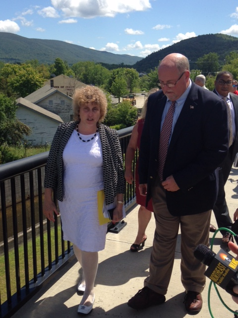 MassDOT Secretary and CEO Stephanie Pollack today joined elected officials in North Adams to celebrate the completion of the Hadley Overpass Project. The $34.6 million project rehabilitated the functionally obsolete Hadley Overpass, which carries Route 8 (State Street) over the Hoosic River and the B&M Railroad.